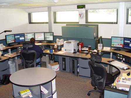 A view of the Jefferson County, Washington Public Safety Answering Point.